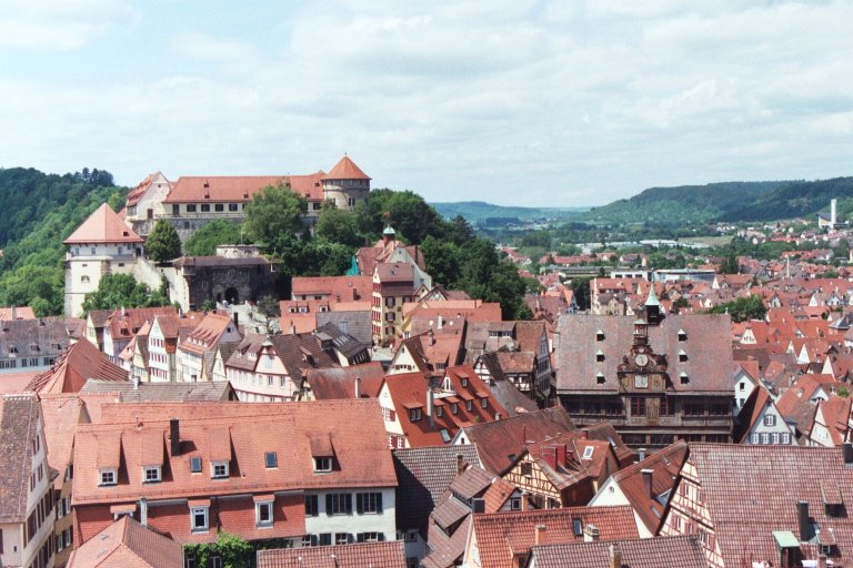 Old town of Tübingen from the top of St. Georg Stift.